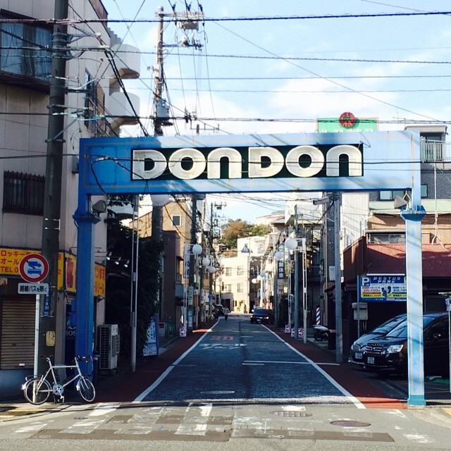 DONDON Shopping Street in Yokohama city